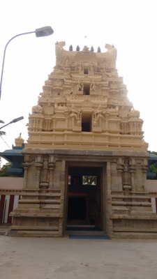 Karuvelisargunanathesvarartemple கருவேலிசற்குணநாதேசுவரர்கோயில்